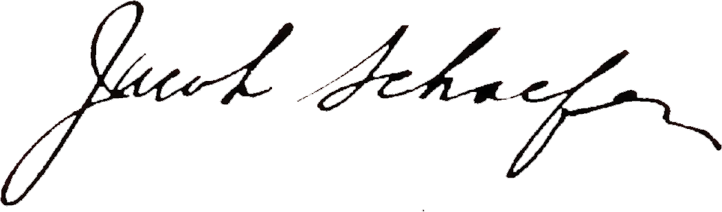 Signature of Jacob Schaefer, Sr., US-american Billiardsplayer.